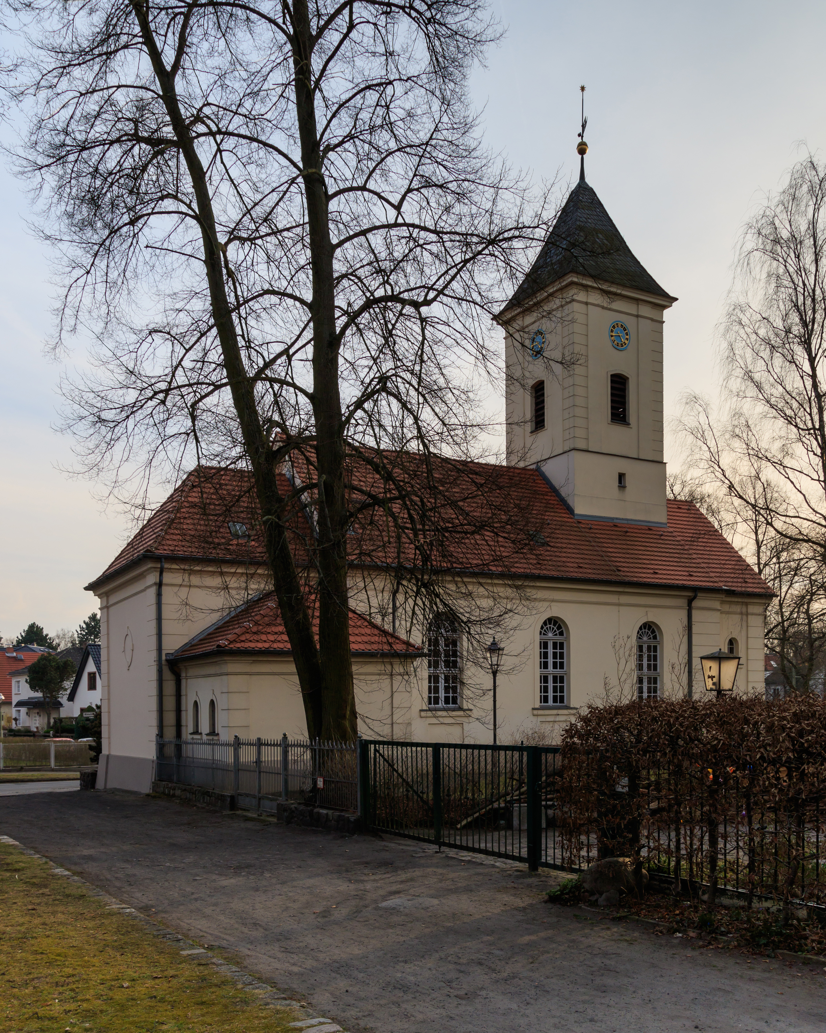 Village church of Hermsdorf in Berlin